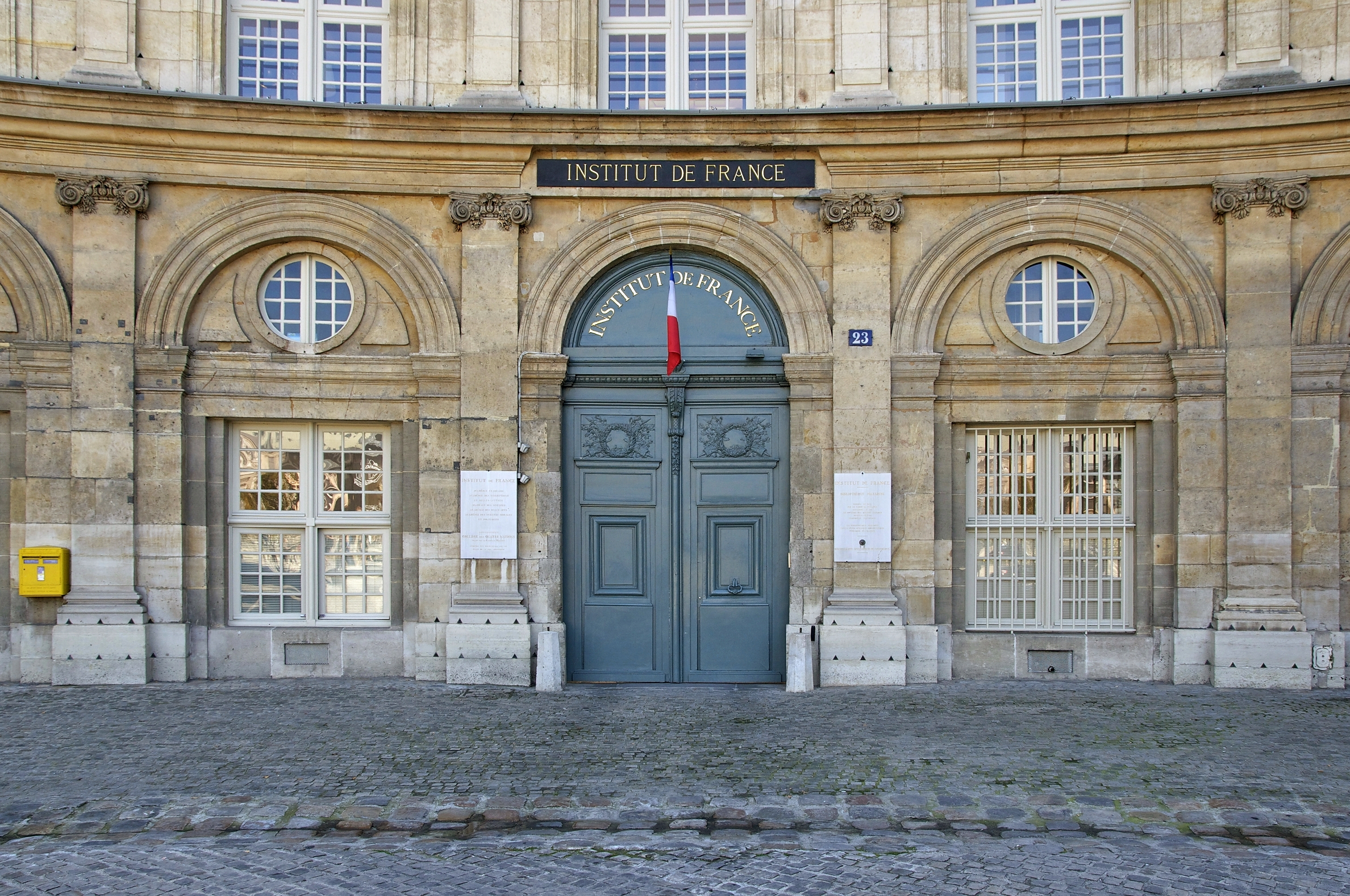 Main entrance of the Institut de France, 23 quai de Conti in Paris, 6th arrdt. It is also the entrance of the Bibliothèque Mazarine, the oldest public library in France.